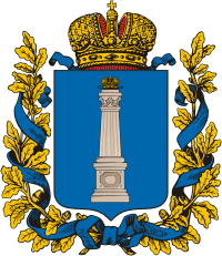 Simbirsk gubernia (Russian empire), coat of arms